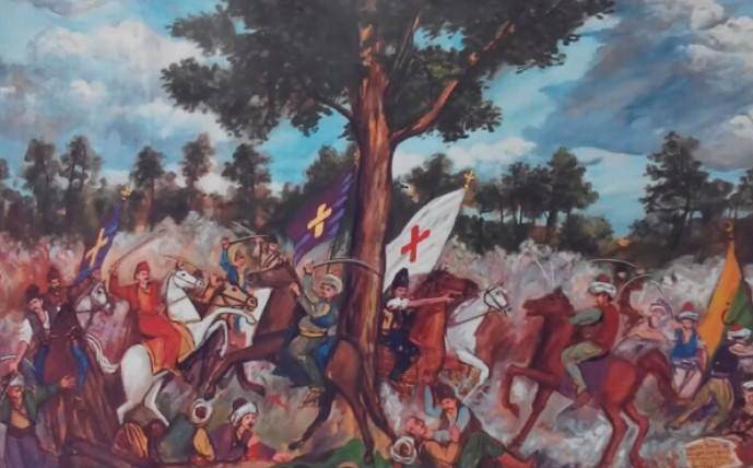 Miloš Obrenović on white horse with fes leading cavalry charge supporting infantry and finally eliminating rest of turkish army.